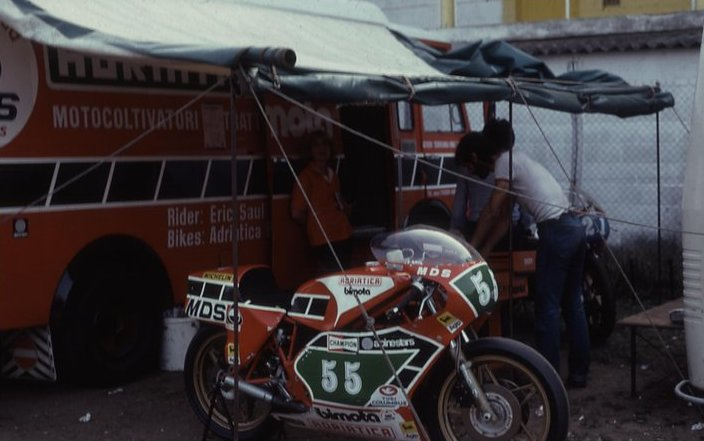 Team Bimota Adriatica